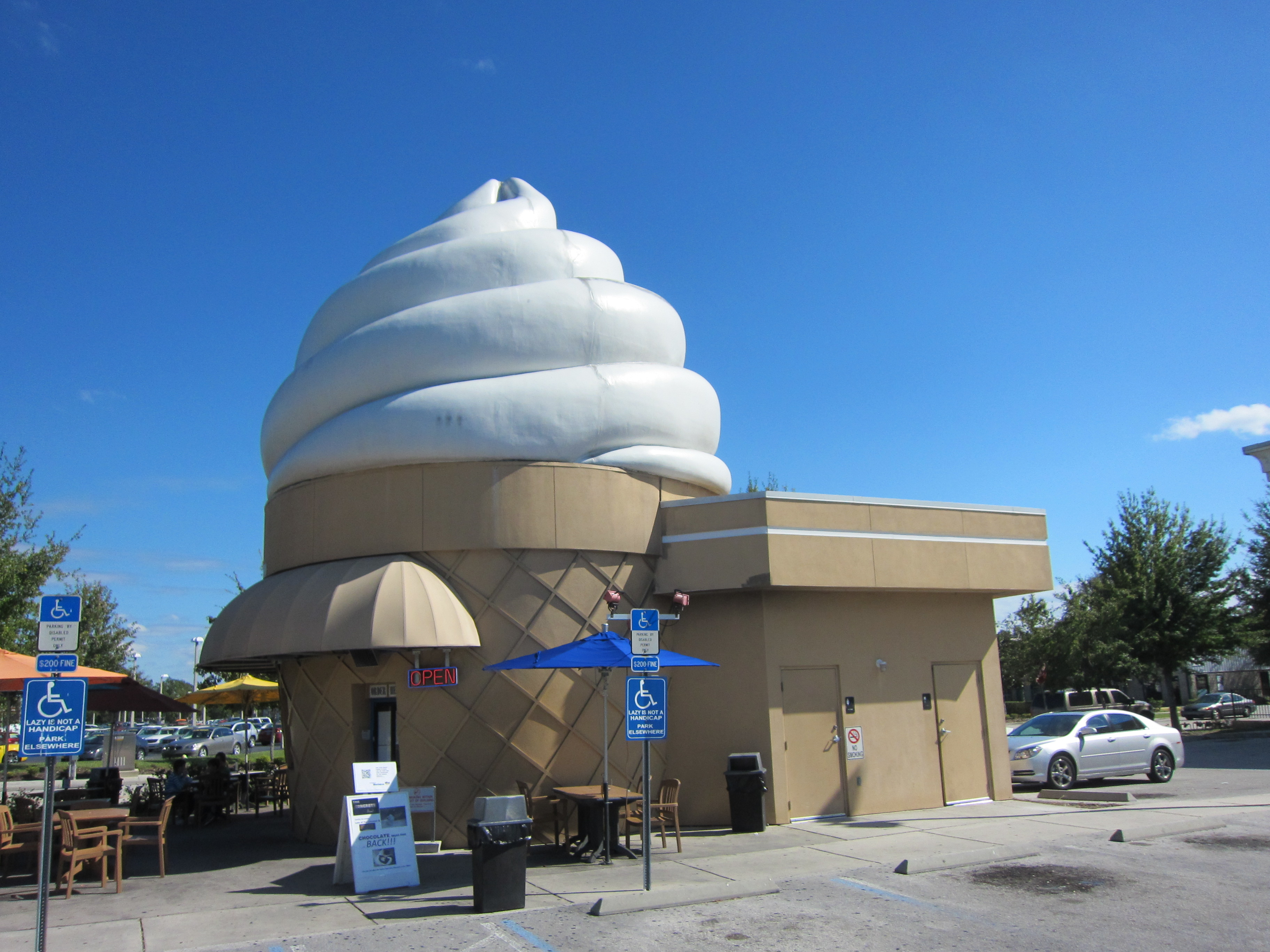 Chillin' Out Ice Cream, 1410 East Osceola Parkway, Kissimmee, Florida.